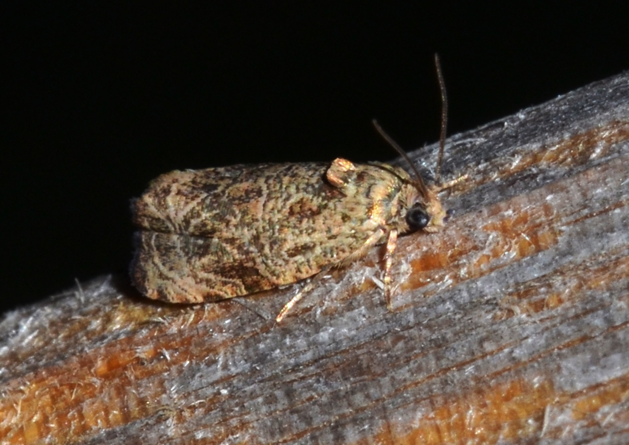 Mothing 7/31/14